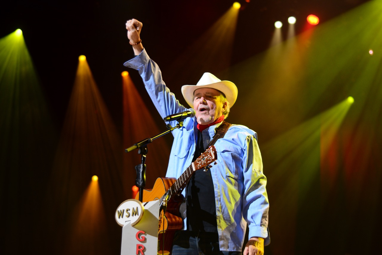 Bobby Bare performing at the Grand Ole Opry in 2017